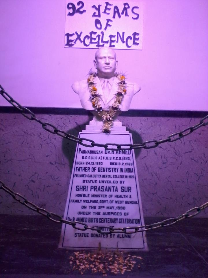 radch